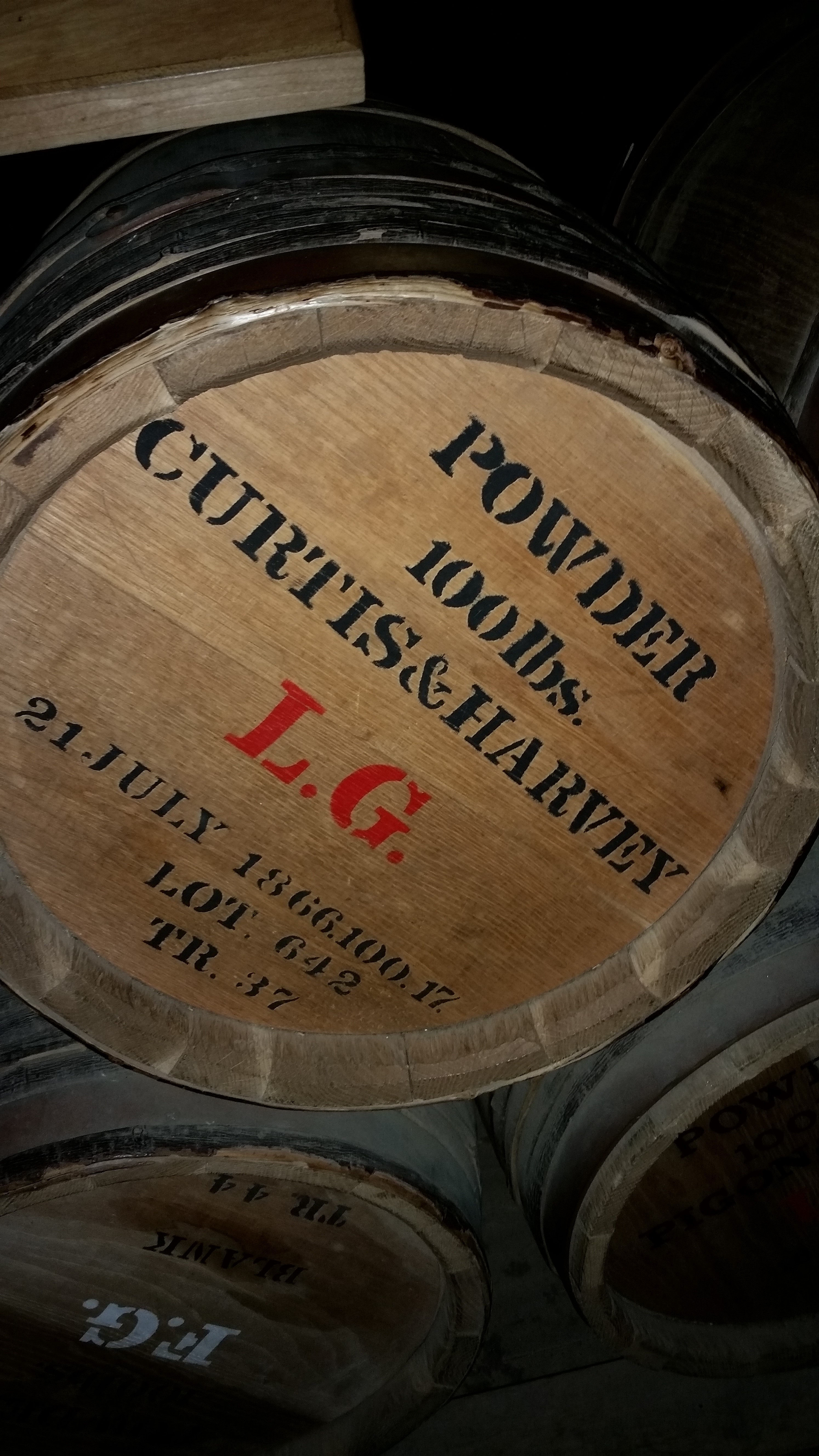 Curtis & Harvey gunpowder barrel at the Citadel Hill (Fort George) gunpowder magazine